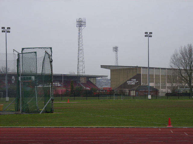 Athletics track in Swindon View across an athletics track to the County Ground, the home of Swindon Town FC.